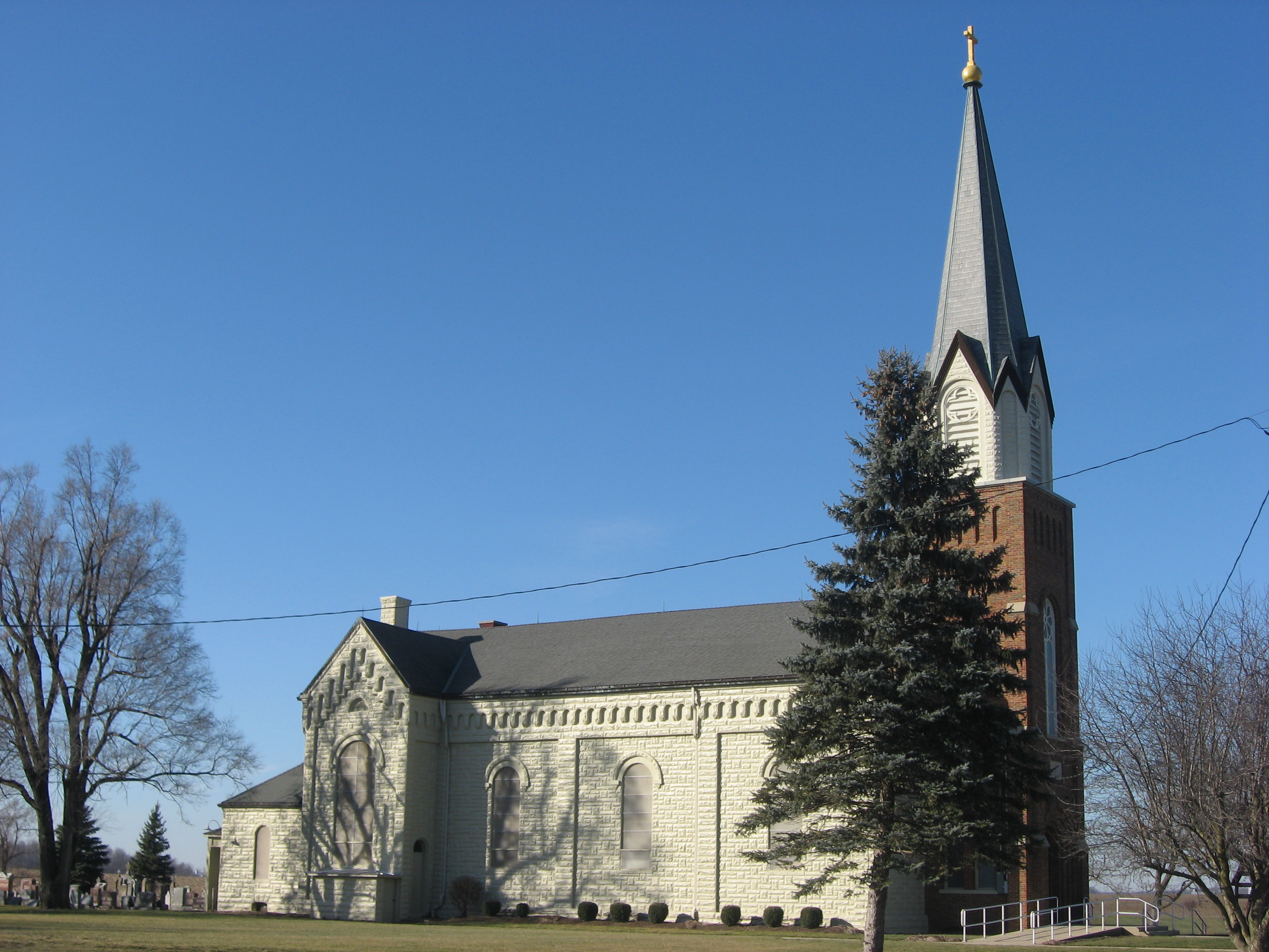 Eastern side and front of St. Wendelin's Catholic Church, located at the intersection of Fort Recovery-Minster and Township Line Roads in Wendelin, an unincorporated community in Recovery Township, Mercer County, Ohio, United States. Built in 1870, the church, its rectory (now destroyed), and its school were listed together on the National Register of Historic Places as a part of the Cross-Tipped Churches of Ohio Thematic Resources.